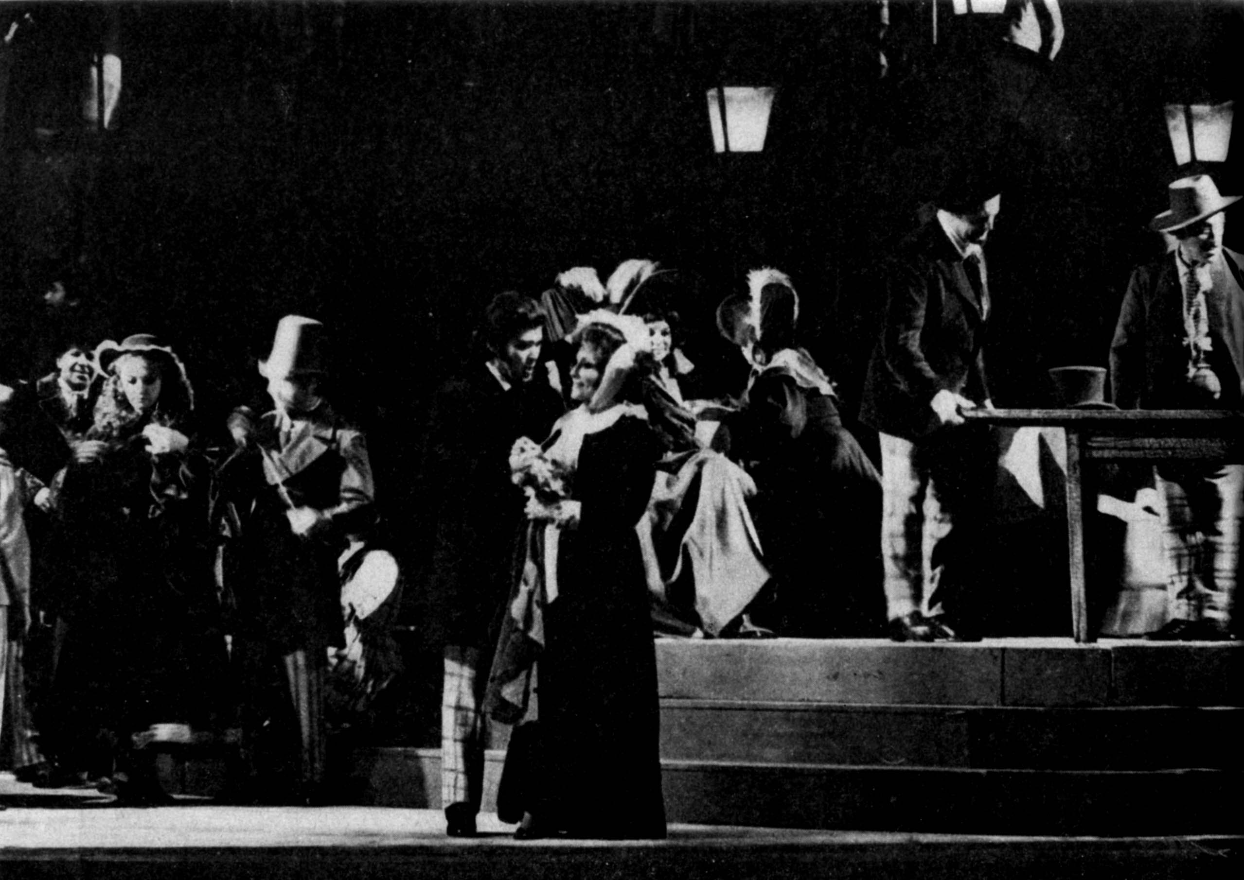 Scene from the second act of Puccini's "La Boheme", featuring Myrtha Garbarini and Horacio Mastrango in main roles. Colón Theatre, Buenos Aires.